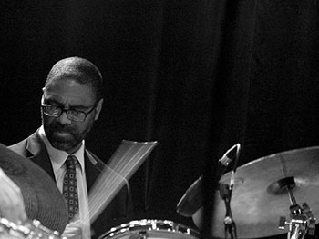 Dennis Macrel performing in Aarhus Denmark 2014